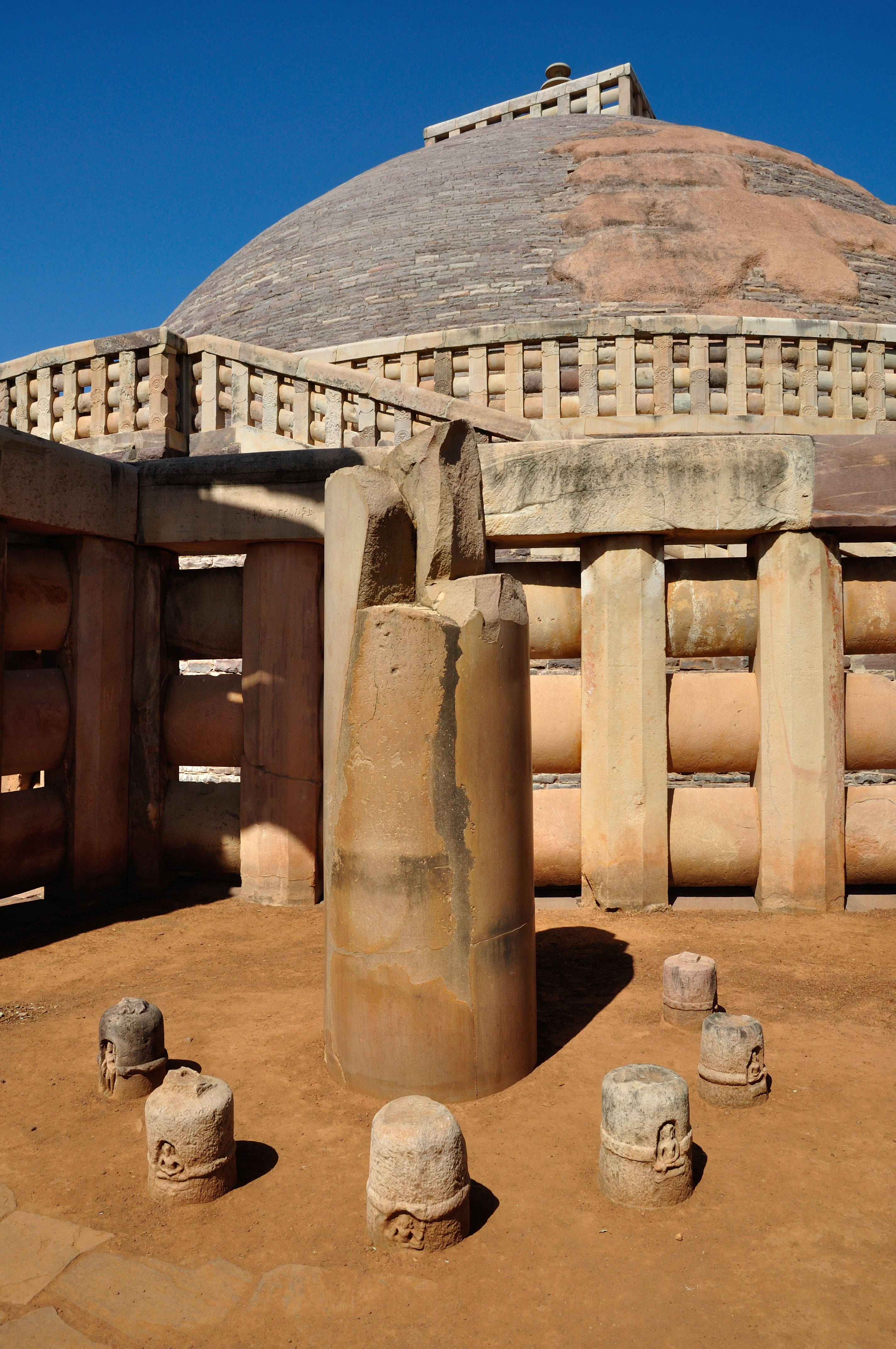 Buddhist monument at the Sanchi Hill, Raisen district of the state of Madhya Pradesh, India.